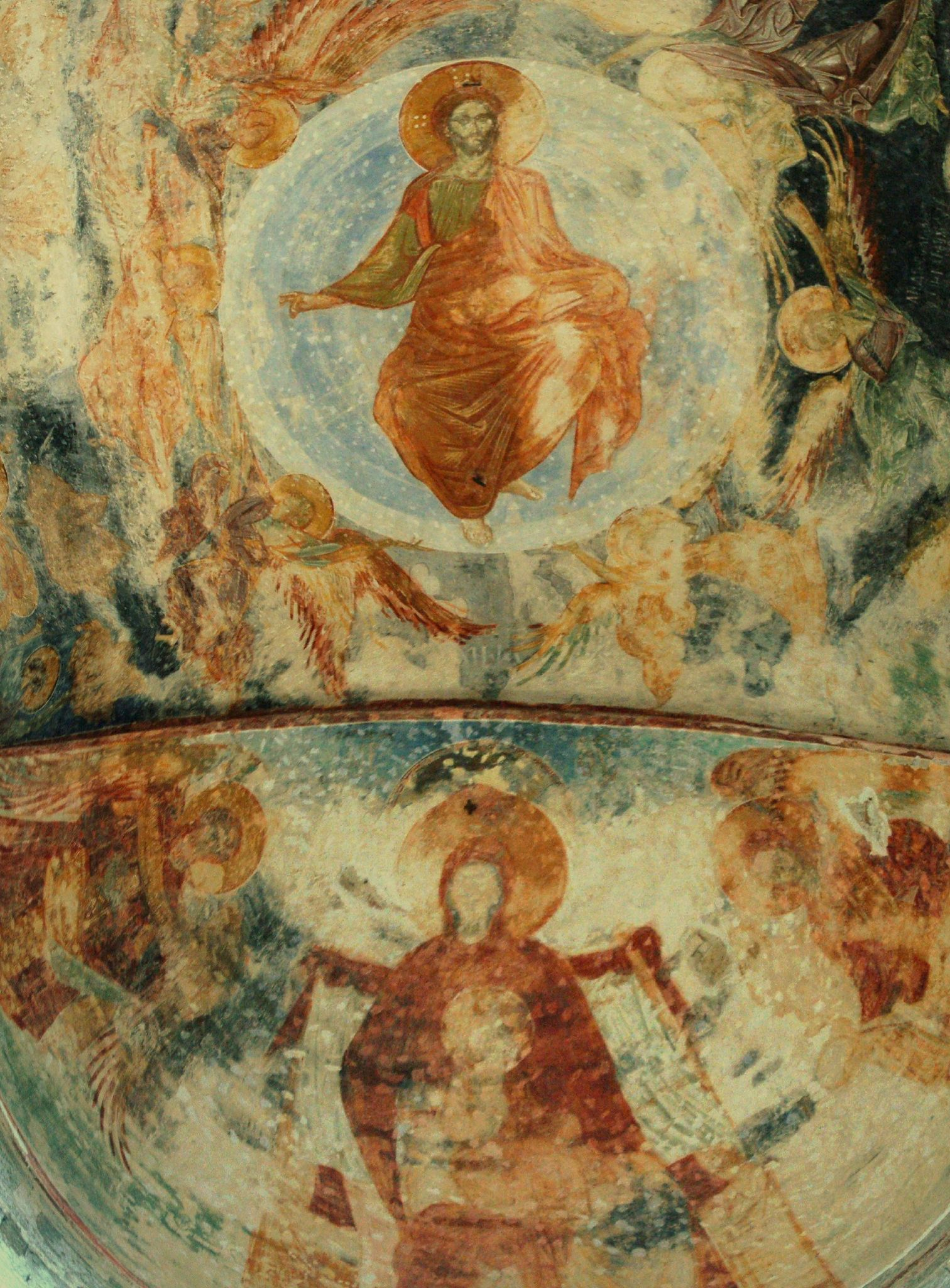 Ceiling of the Hagia Sophia, Trabzon.